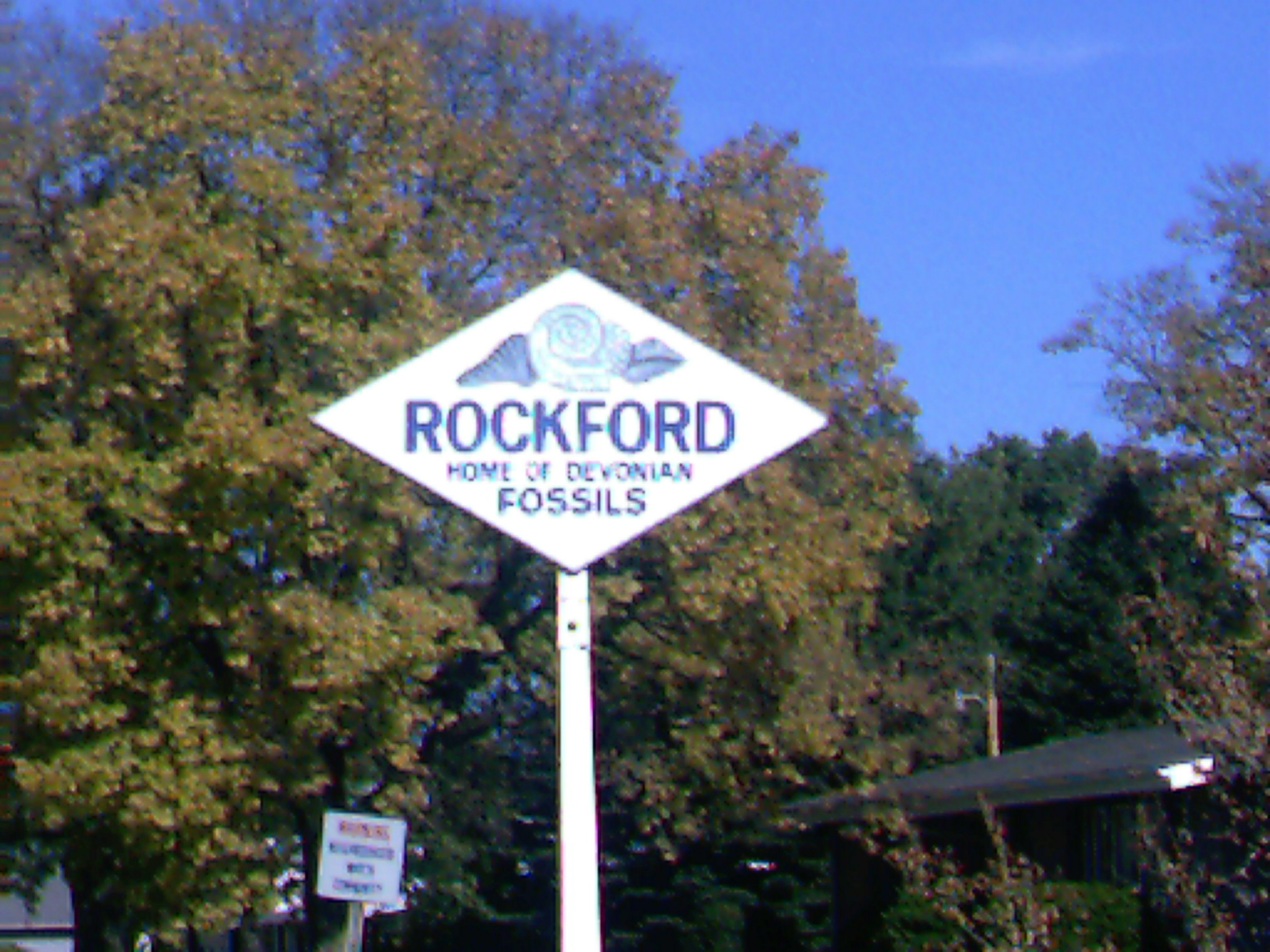 Road sign welcoming people to Rockford IA